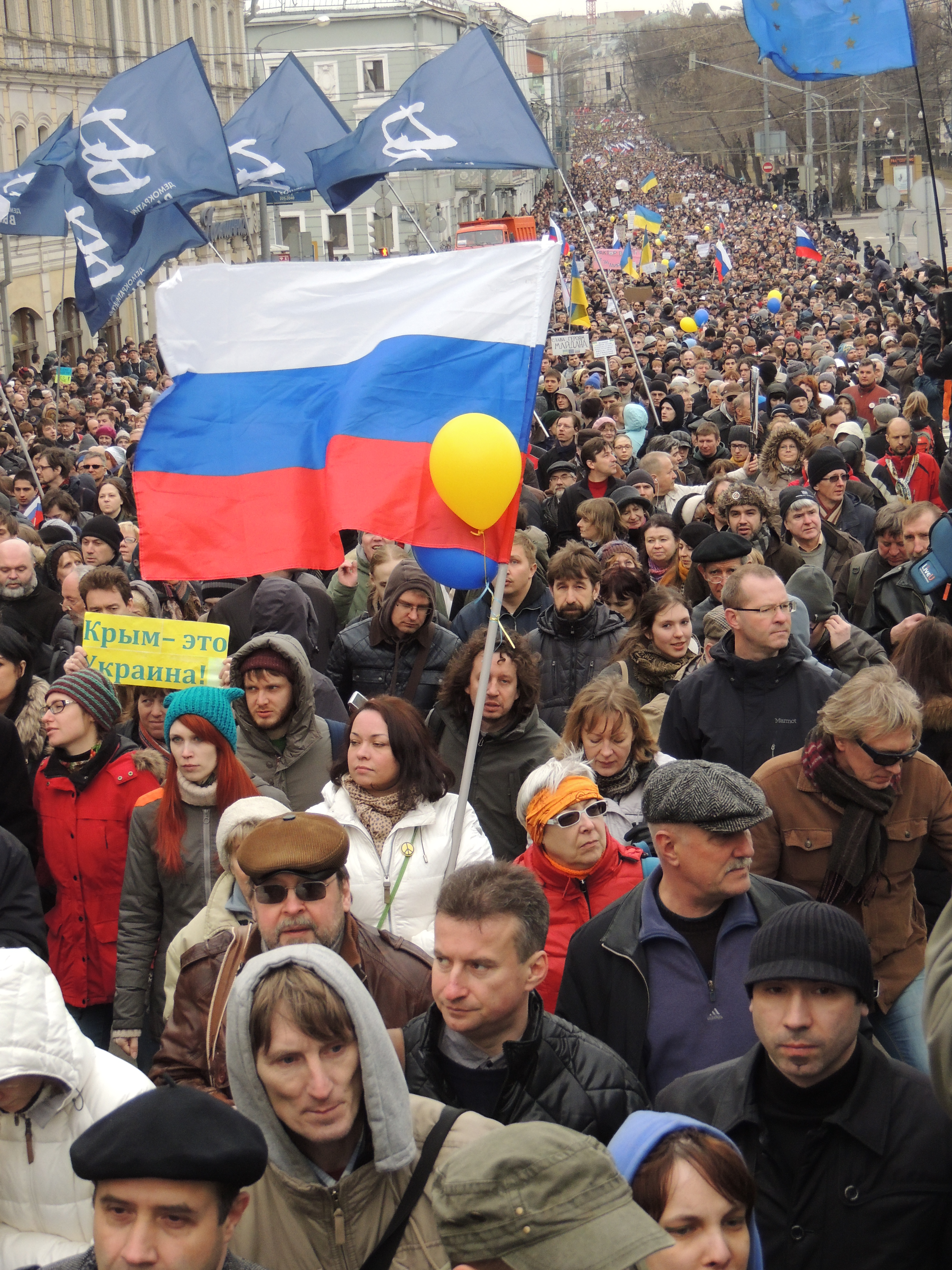 March of Peace (2014-03-15, Moscow) Trubnaya Square